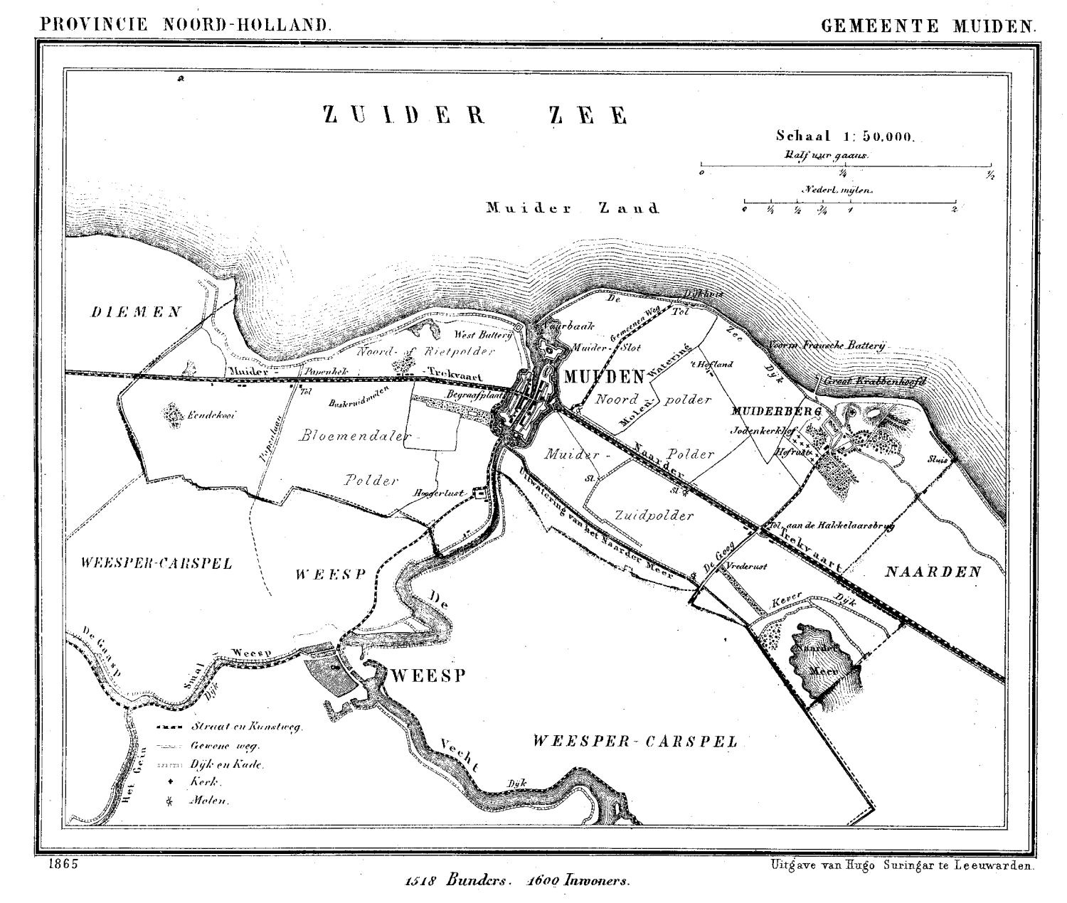 Historic map of Muiden, North Holland, the Netherlands